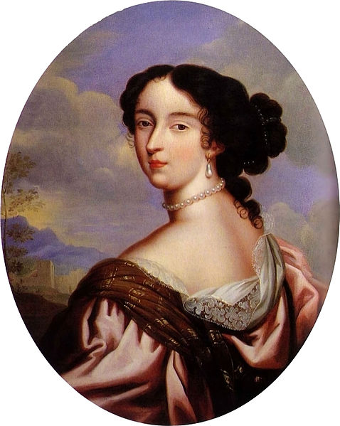 Maintenon as a young woman